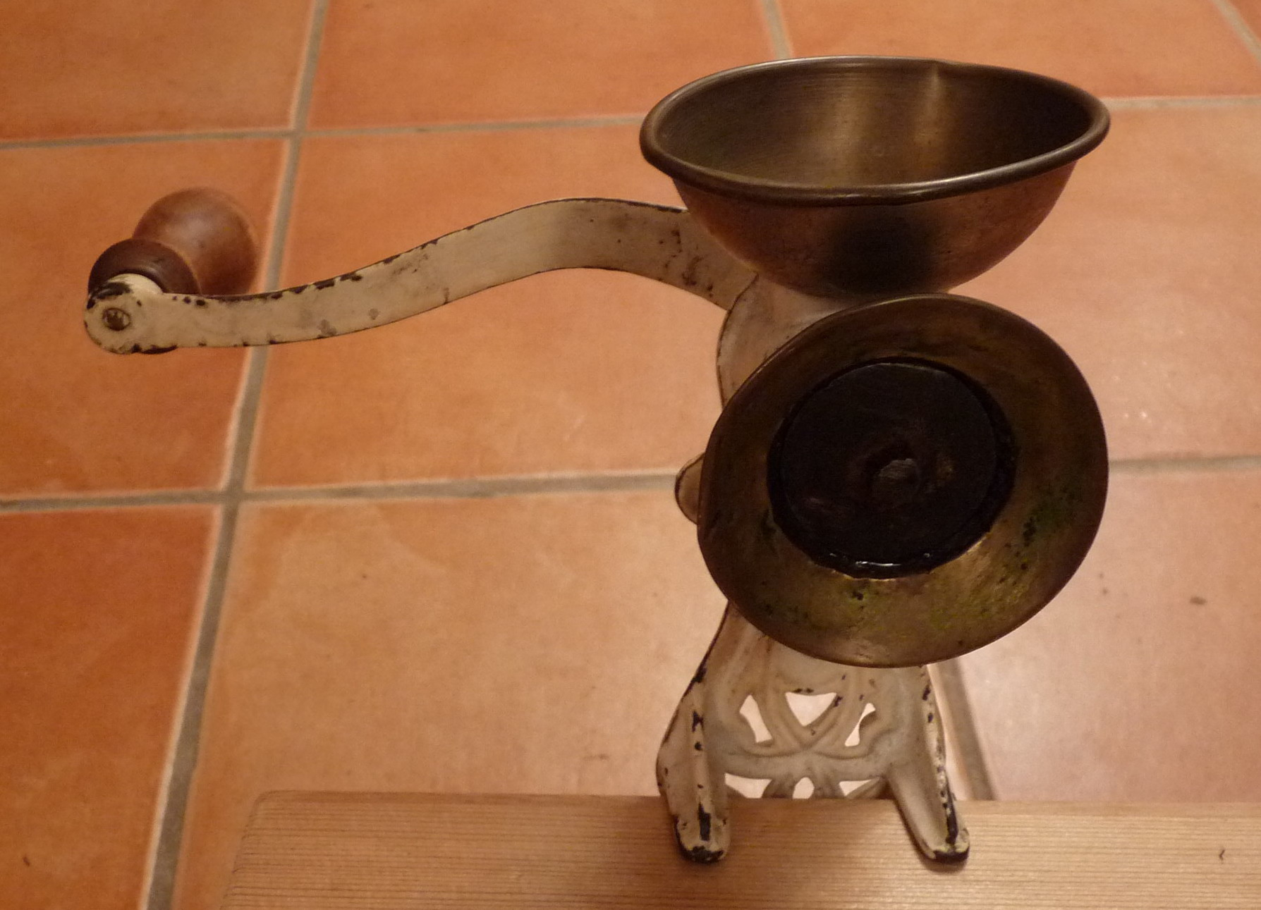 poppy seed grinder IDEAL, Porkert company (Czechoslowakia)